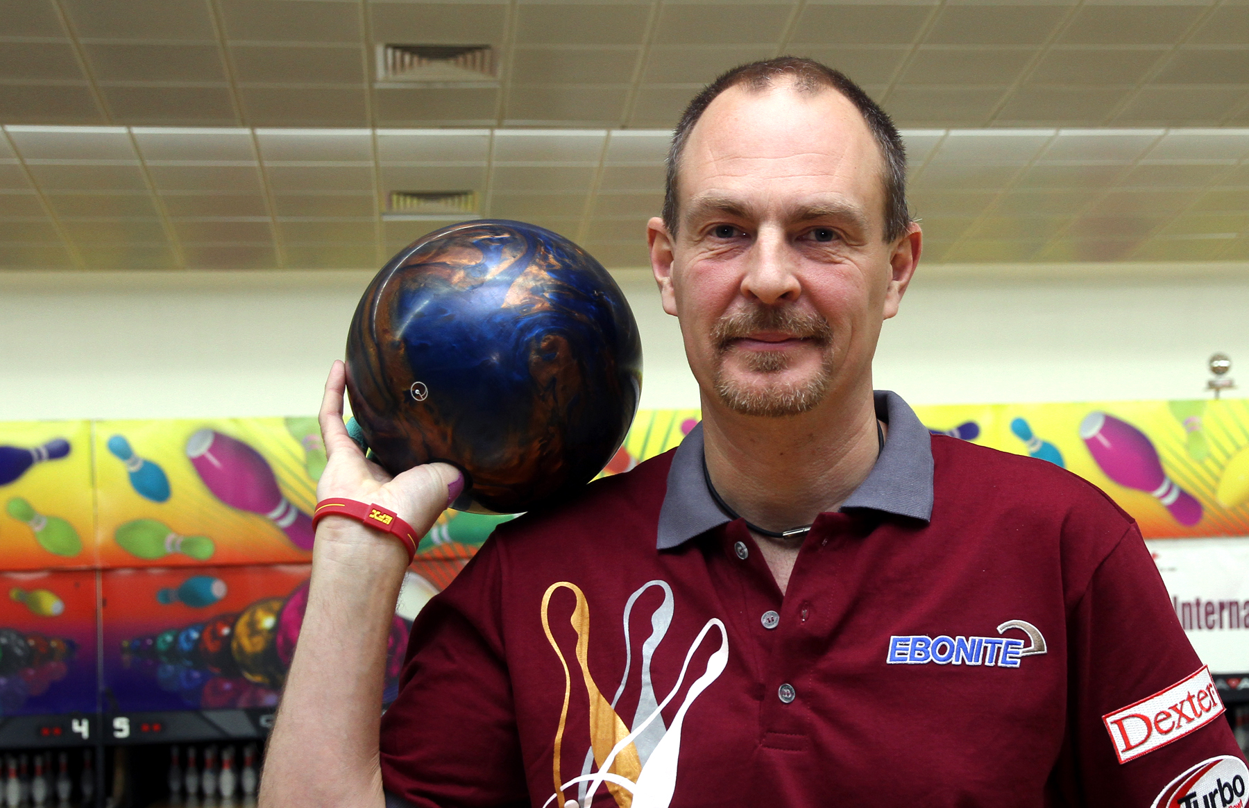 Qatar International Open bowling runner-up Mika Koivuniemi poses with the ball. Pic by Vinod Divakaran